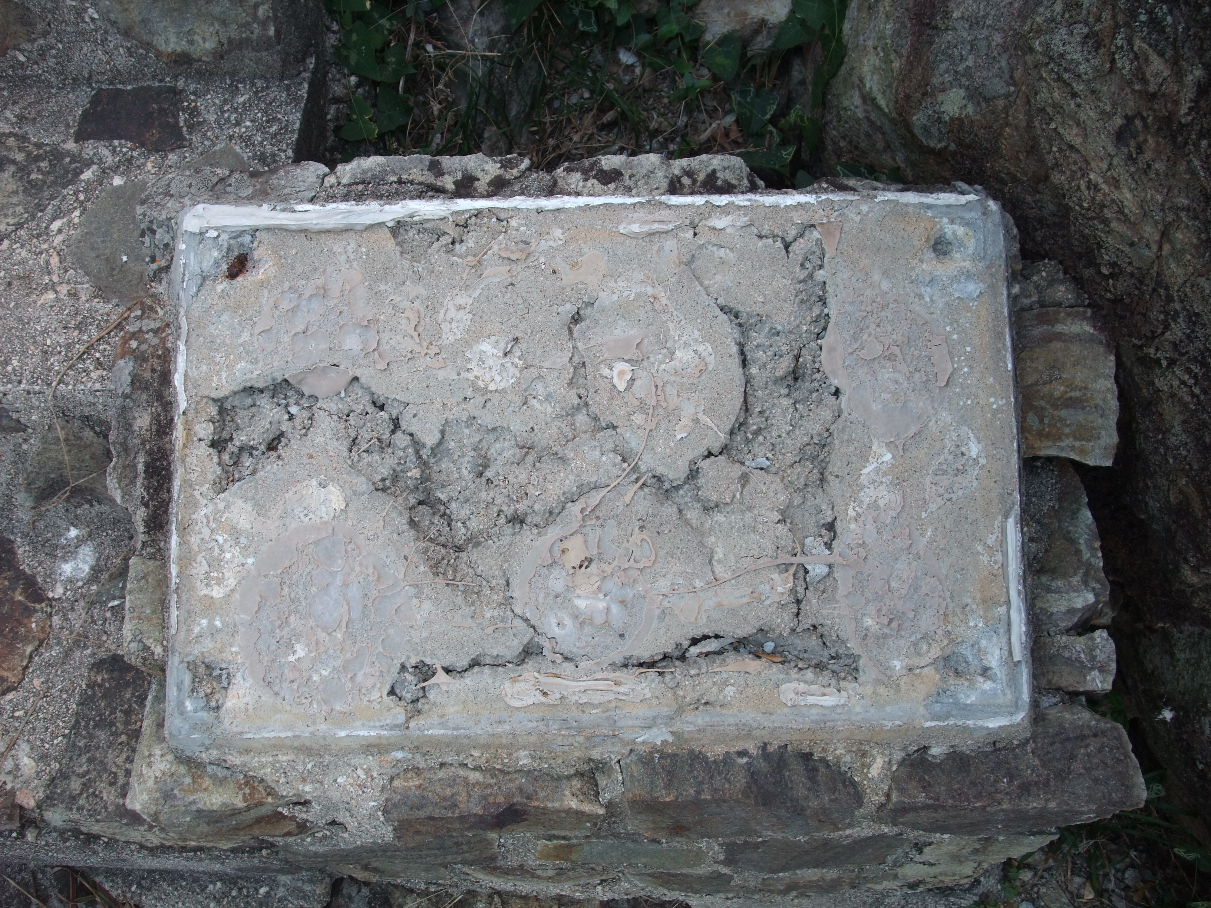 Photo of Lung Ha Wan Rock Carving